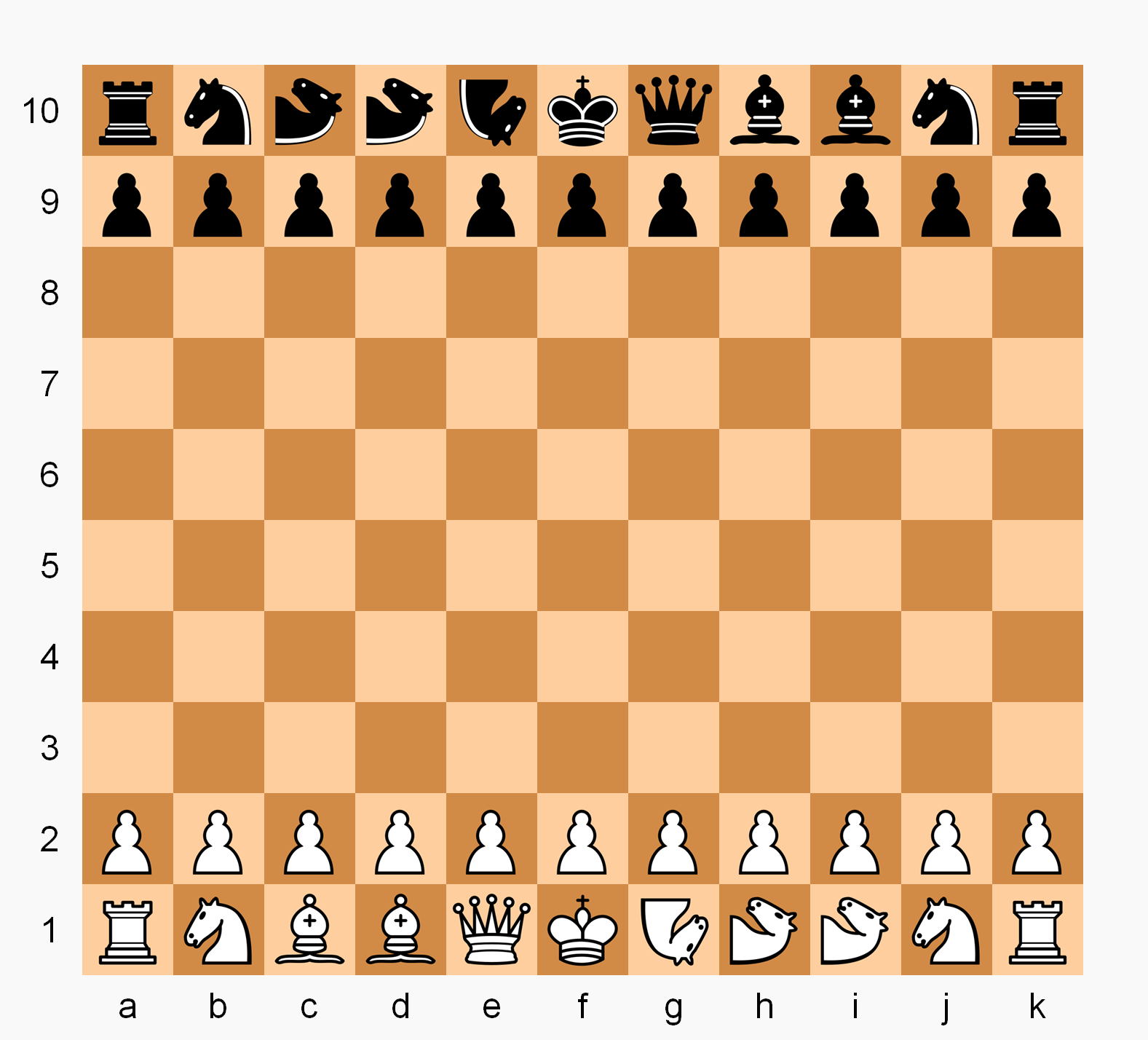 Wildebeest Chess starting position; the graphic uses User:Cburnett's free-use image icons